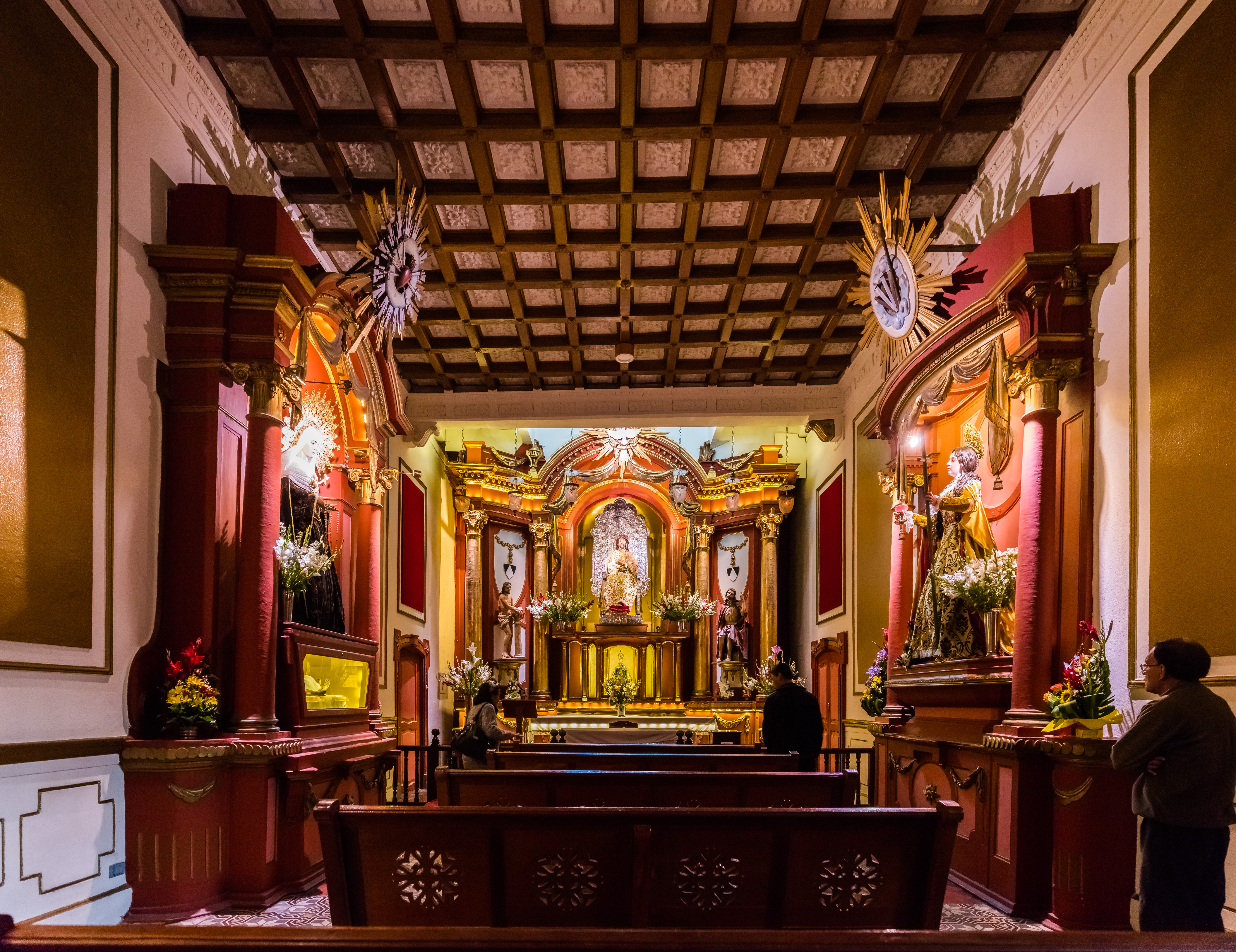 Church of St Domingo, Lima, Peru